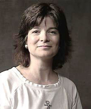 Planetary scientist Carolyn Porco